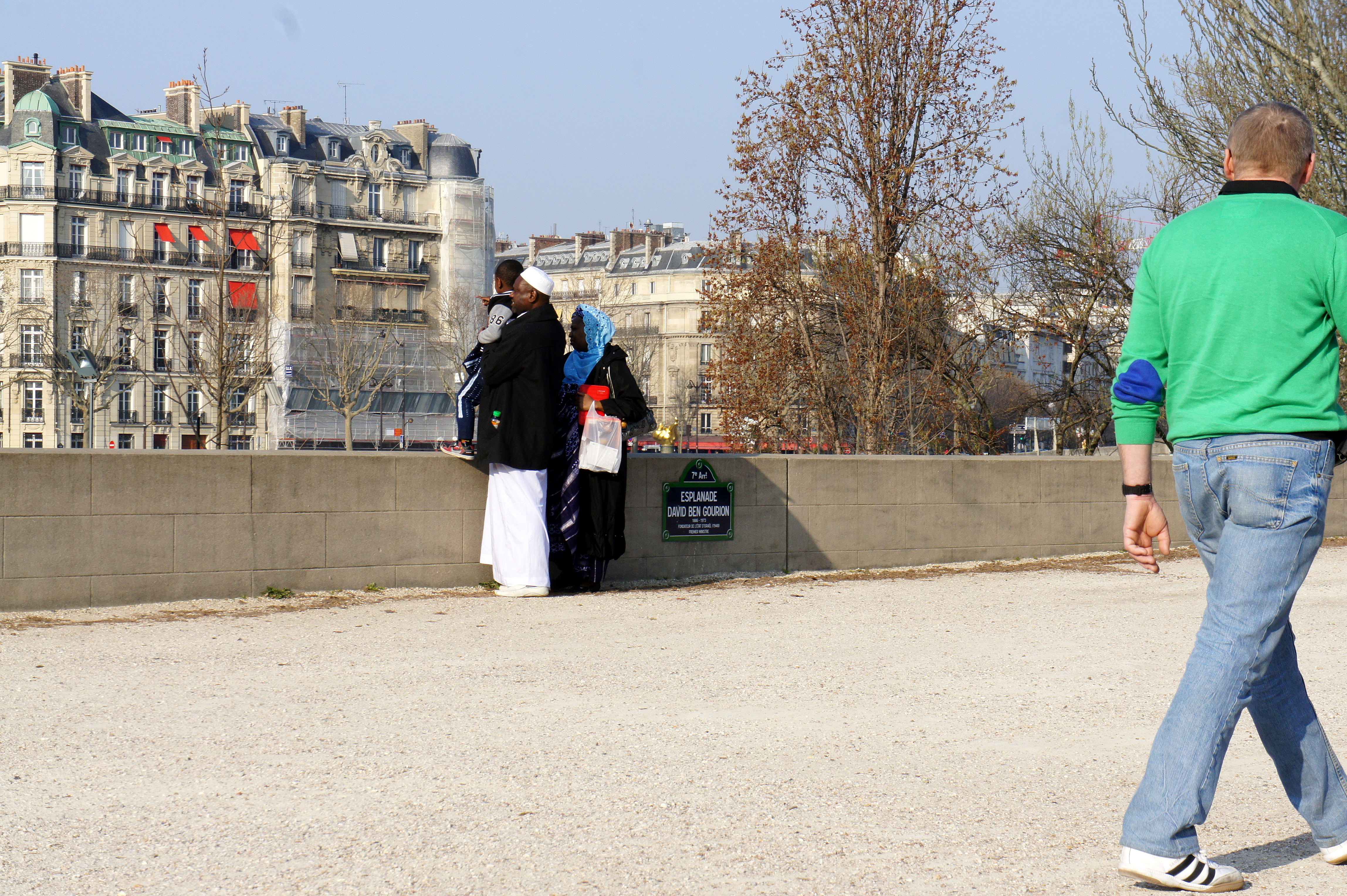 Paris, near the river Seine, in front of the Musée du Quai Branly